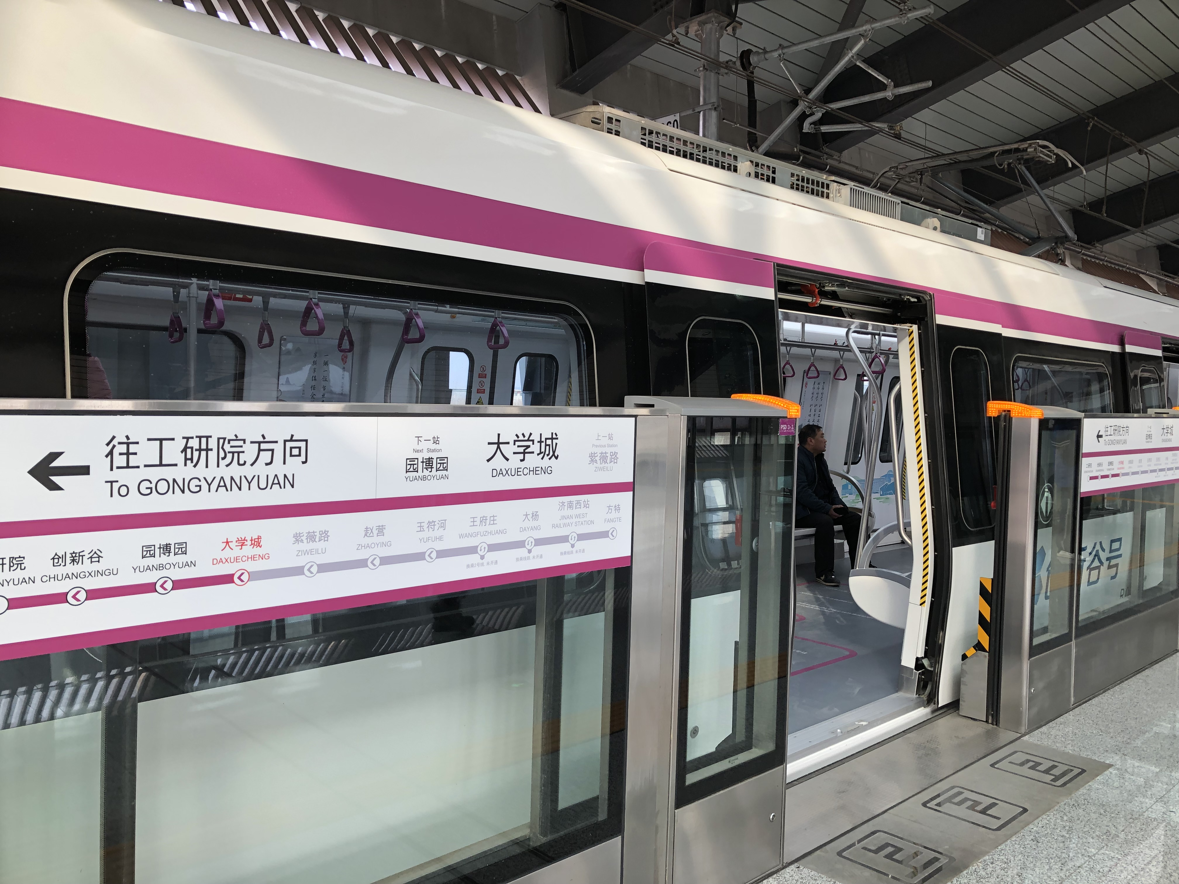 University Town Station (Jinan Metro).